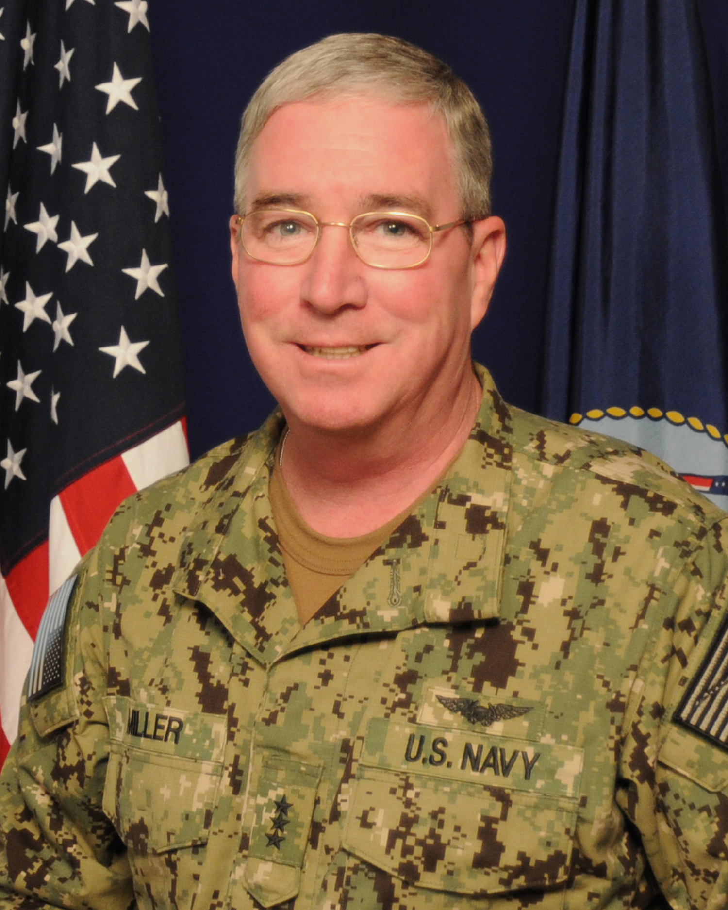 Vice Admiral John W. Miller, USN, official portrait from COMNAVCENT website